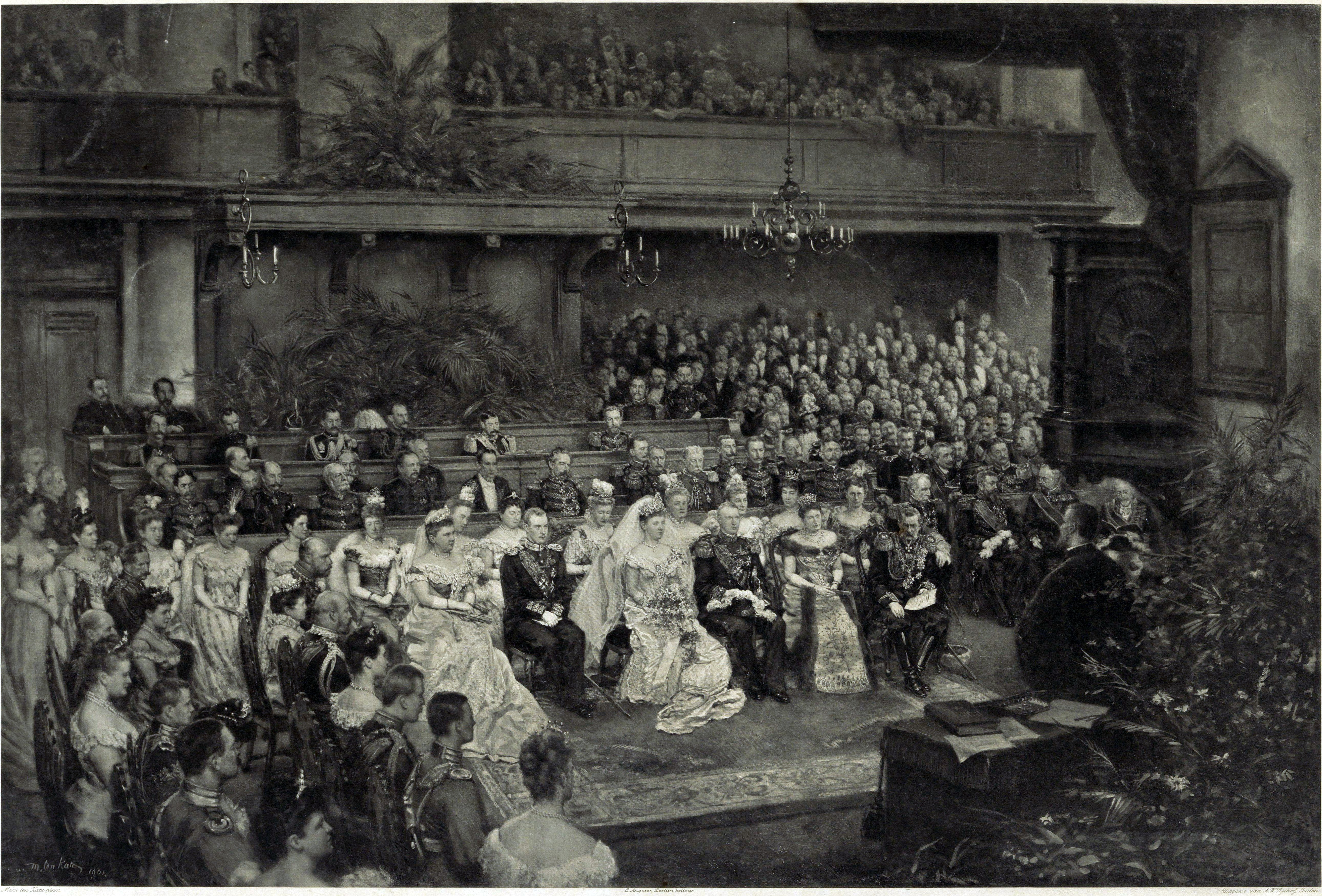 Inauguration of the marriage of Queen Wilhelmina of the Netherlands and Duke Hendrik of Mecklenburg-Schwerin in the Great Church in The Hague on February 7, 1901. To the left of the bride her mother Queen Emma and Hendrik's cousin, Grand Duke Frederik Frans IV of Mecklenburg-Schwerin. To the right of the groom his mother Marie of Schwarzburg-Rudolstadt. The marriage was inaugurated by the Minister of Justice Pieter Cort van der Linden, who acted as official of the civil registry.